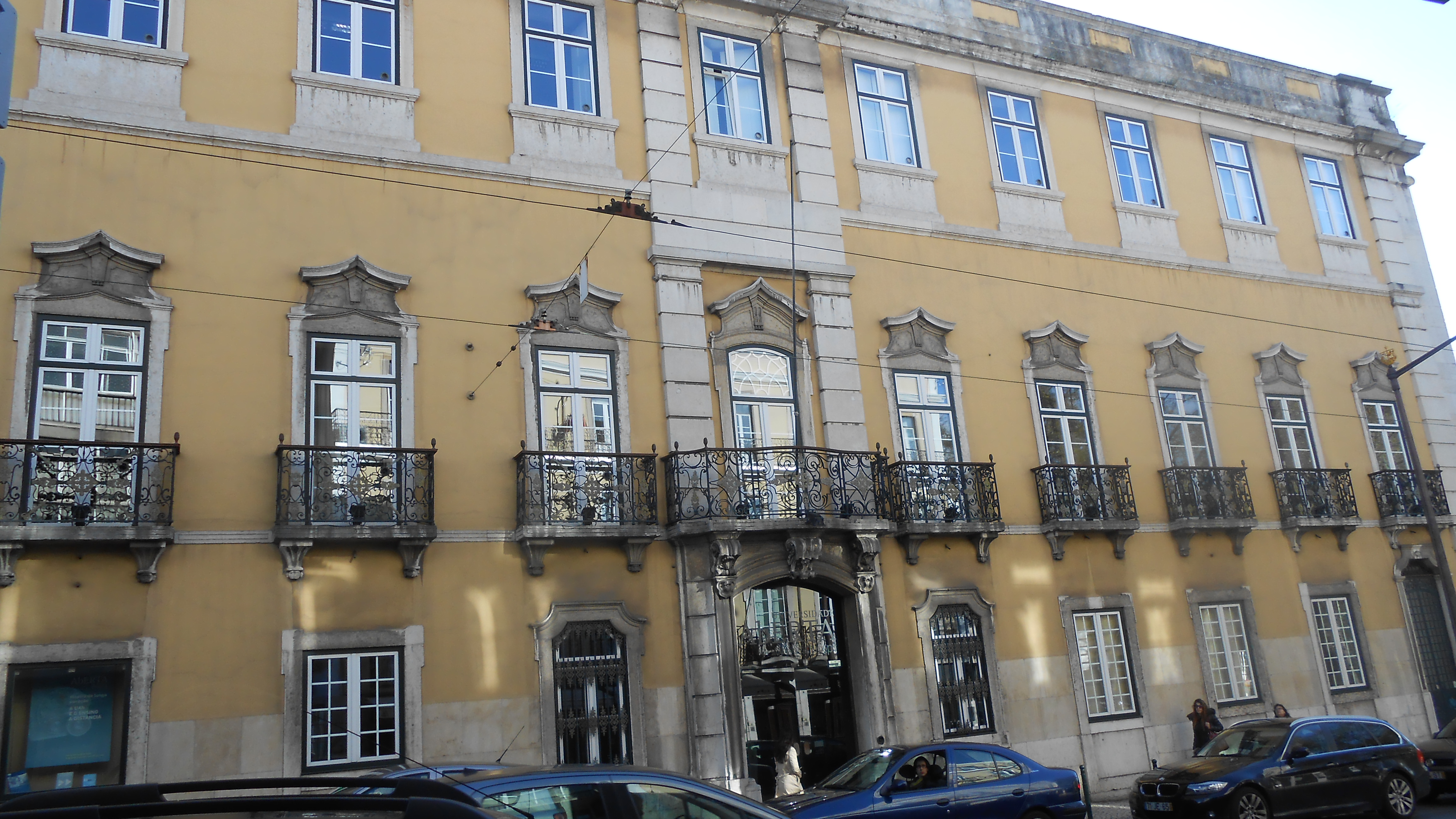 The Universidade Aberta (Open University) in Lisbon, situated in the Palácio Bramão, which was built in 1760.